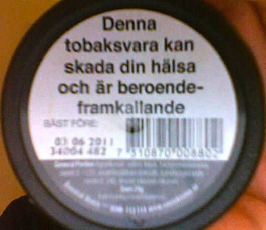 warning label on container of swedish snus